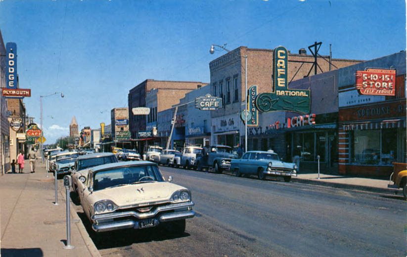 Postcard showing streetview of US Route 66 Eastbound.